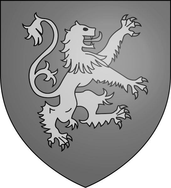 Coat of arms of Henry II of England. Blazon: Gules a lion rampant Or.